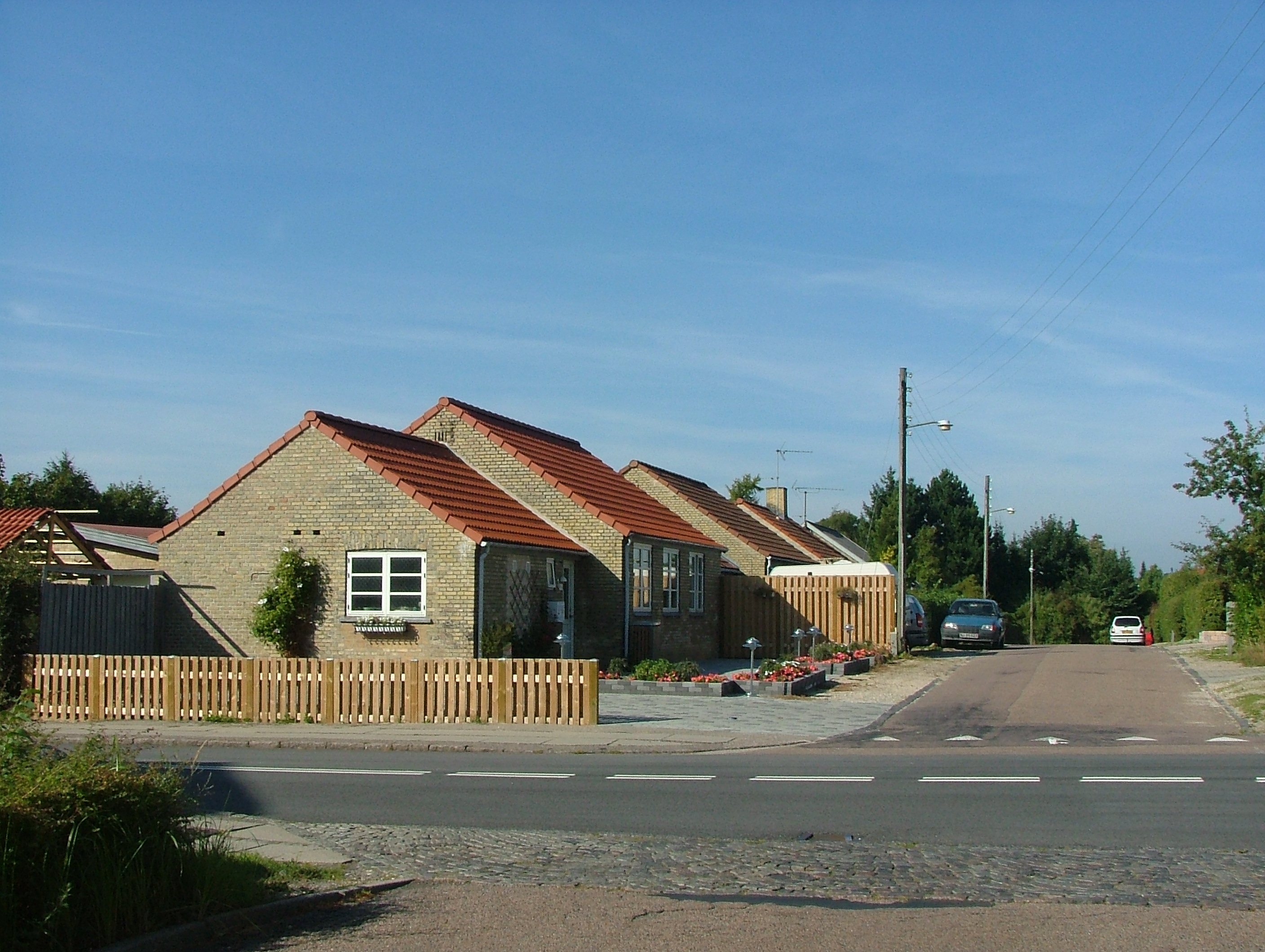 Housing area in Brøndby, near Copenhagen